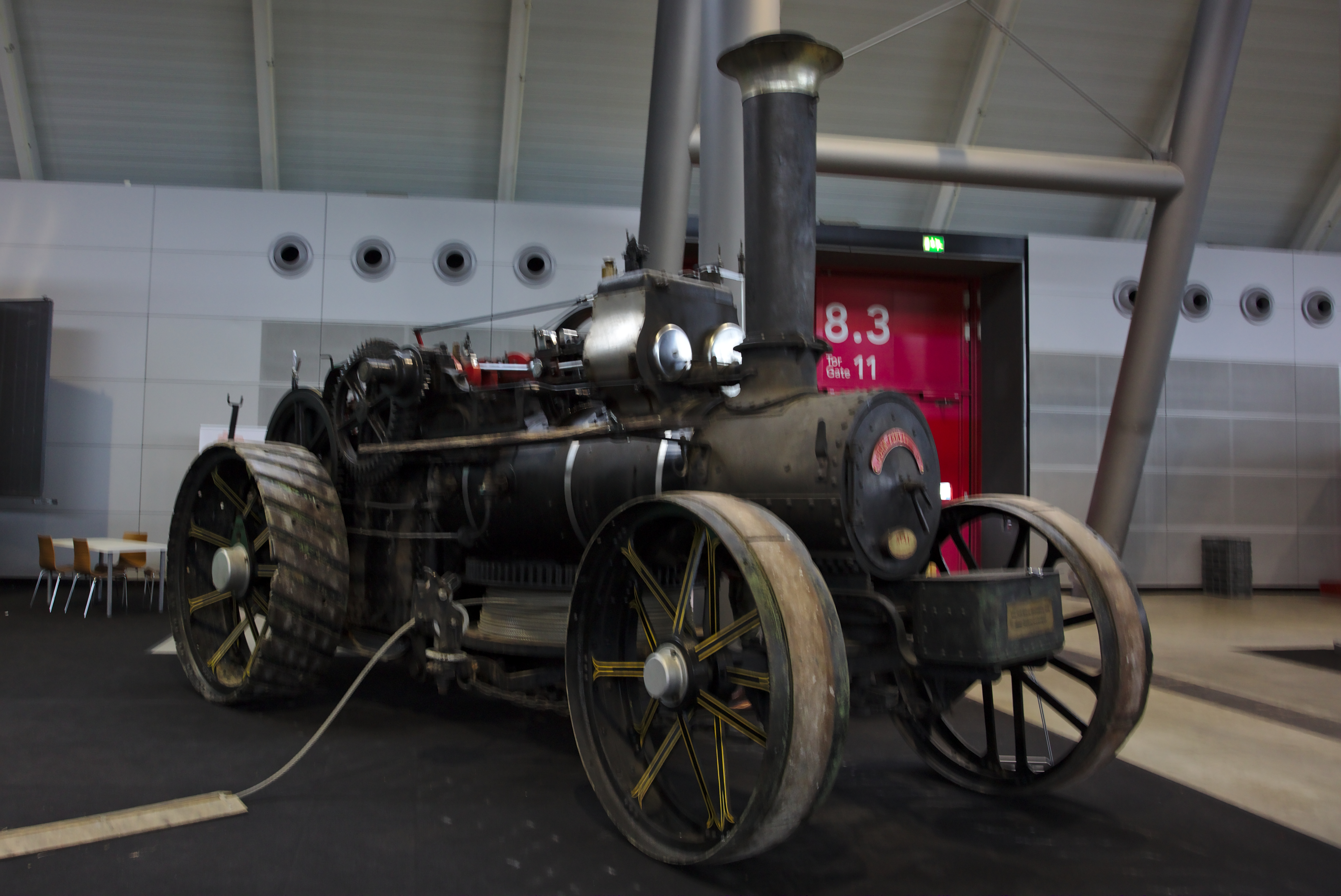 Fowler-Pluglokomobile Typ AA4 at Retro Classics 2018